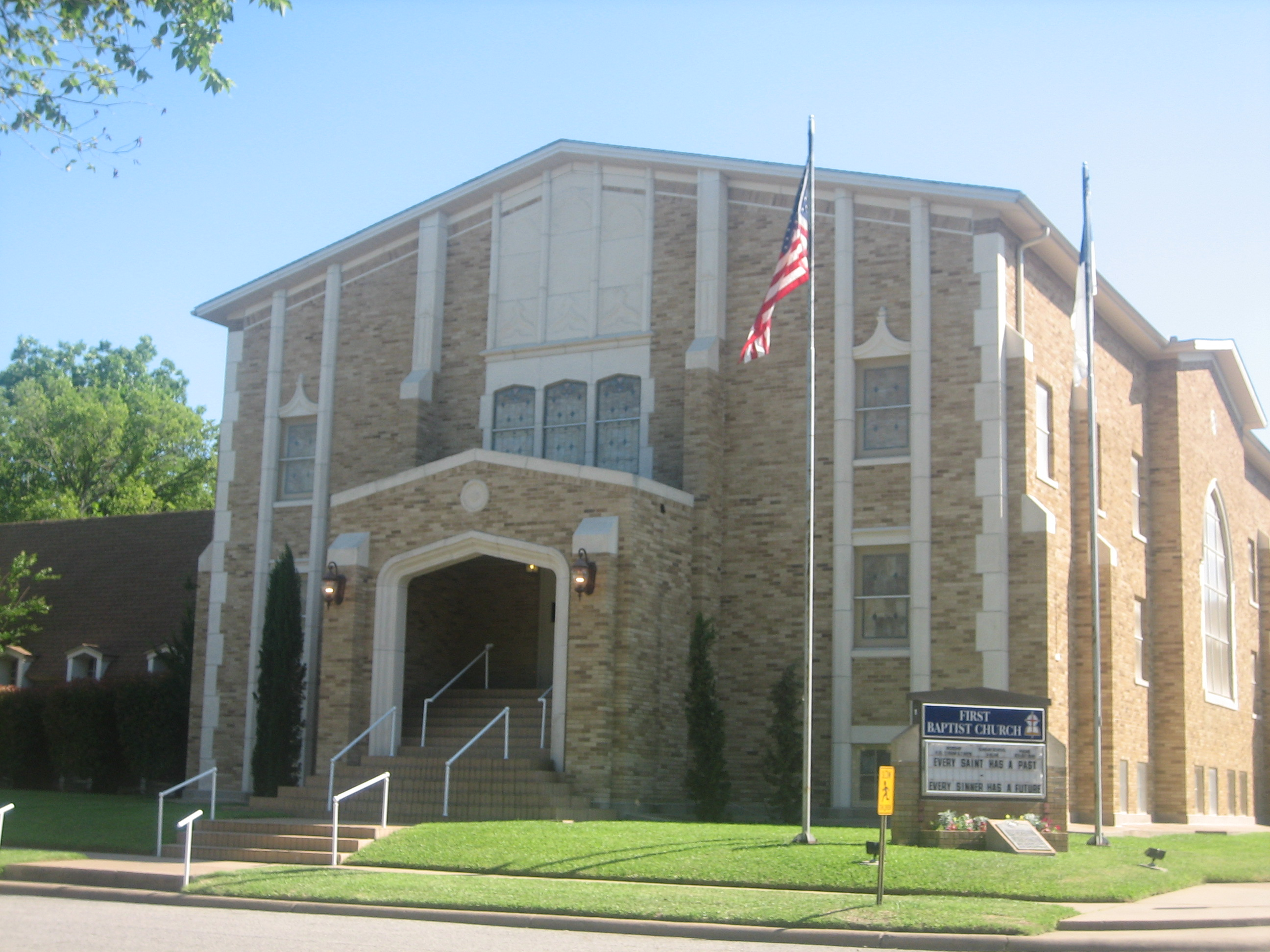 I took photo on May 19, 2009.Billy Hathorn (talk) 02:56, 31 May 2009 (UTC)